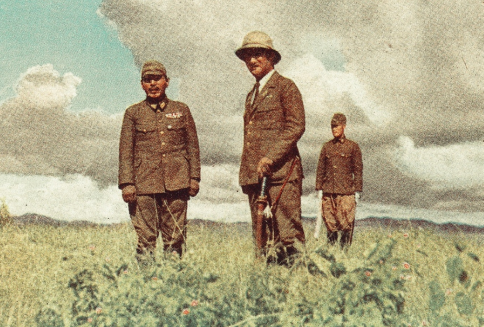 Japanese General Count Terauchi Hisaichi commanding officer of the Southern Expeditionary Army Group. Singapore 1942